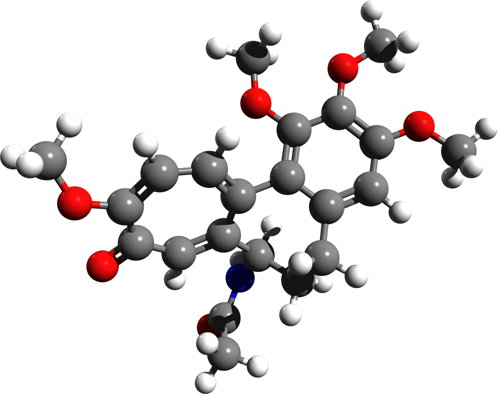 Colchicine 3D structure